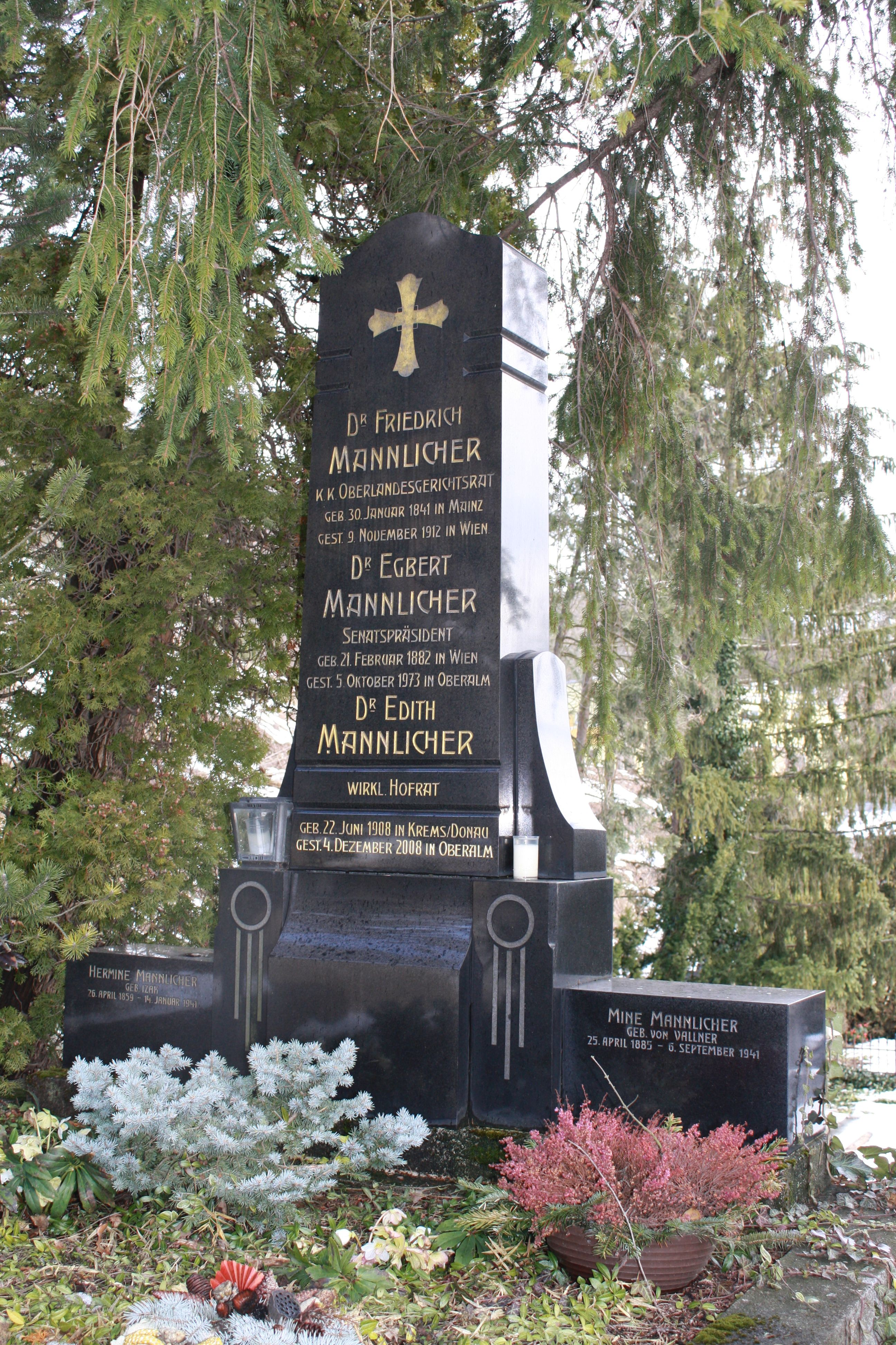 Grave of the austrian jurist Friedrich Mannlicher and his son the jurist Egbert Mannlicher in Hinterbrühl